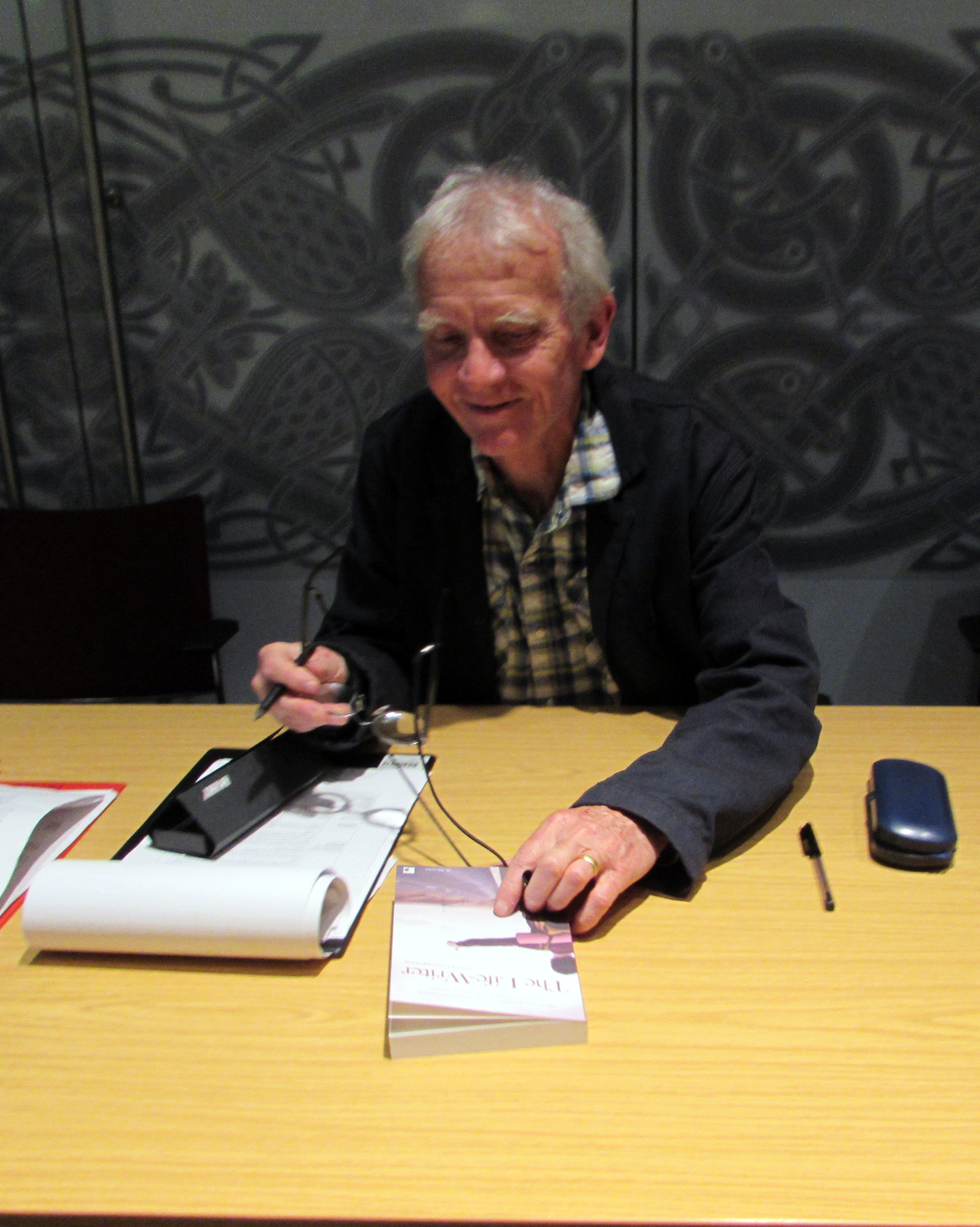 I am pretty much a stranger to this respected and admired writer, translator and poet. Together with my wife Joy we have come to listen to David Constantine with Michelle Green discussing recent writing under the banner of 'Writing From Conflict' Michell Green's fiction is based on her experiences as an international aid worker. David Constantine read his short story 'Asylum' written in response to the humanitarian plight of refugees, a subject with traction right now. I bought a copy of David's novel about relationships, discovery and loss called 'The Life Writer' and he is signing it in my picture. I am not an absolutely new reader as from time to time I see his poetry in The Rialto. Here is his poem: BAD DREAM There was a path, the familiar path, the one I’ve very often not yet ventured on Around a mountainside, cut level, a sheer Fall right, a sheer wall left, a ledge a pair Might amble hand in hand on round the contour And there you were, not you, nearest the wall And there was I, not I, nearest the fall And you were your age, but the hair was wrong I looked like me but many years too young And on a bend where the path swung out of view I, less and less myself, halted with the almost you, And on the brink, for fun or she dared him to, He balanced his arms dead level and stood there On his left foot and over the empty air Raised level his right and so he stood Lean steady spirit level of my blood Over emptiness. You laughed, the pair of you And laughing hand in hand passed out of view. On hands and knees, the ledge very narrow now, I shouted after us, your name, my own. Yours fled my lips to claim you, like a swallow. Mine fell between my cold hands, like a stone. David Constantine